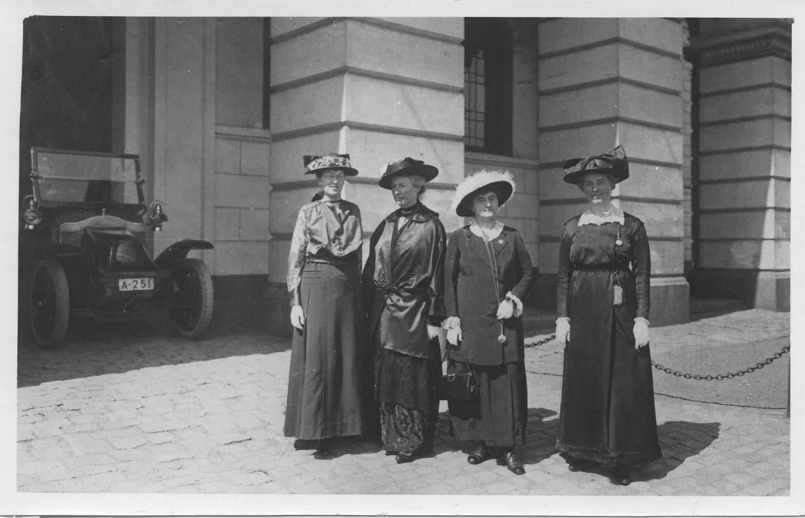 Chrystal Macmillan, featured on the right of the photograph, is one of the founders of WILPF. In this image Macmillian is on a peace mission to the King of Norway in 1915, she was also the first woman to plead a case before the House of Lords when she argued for her right to vote in 1908. - comment on flickr says "This is Emily Green Balch, Chrystal Macmillan, Cor Ramondt Hirschmann and Rosika Schwimmer in Oslo 1915."